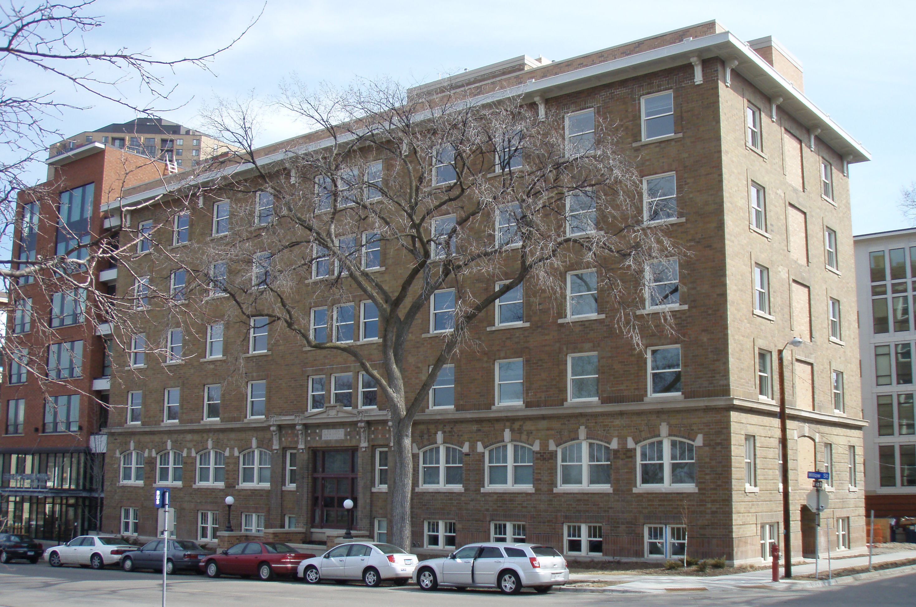 Eitel Hospital in Minneapolis, Minnesota, listed on the National Register of Historic Places.